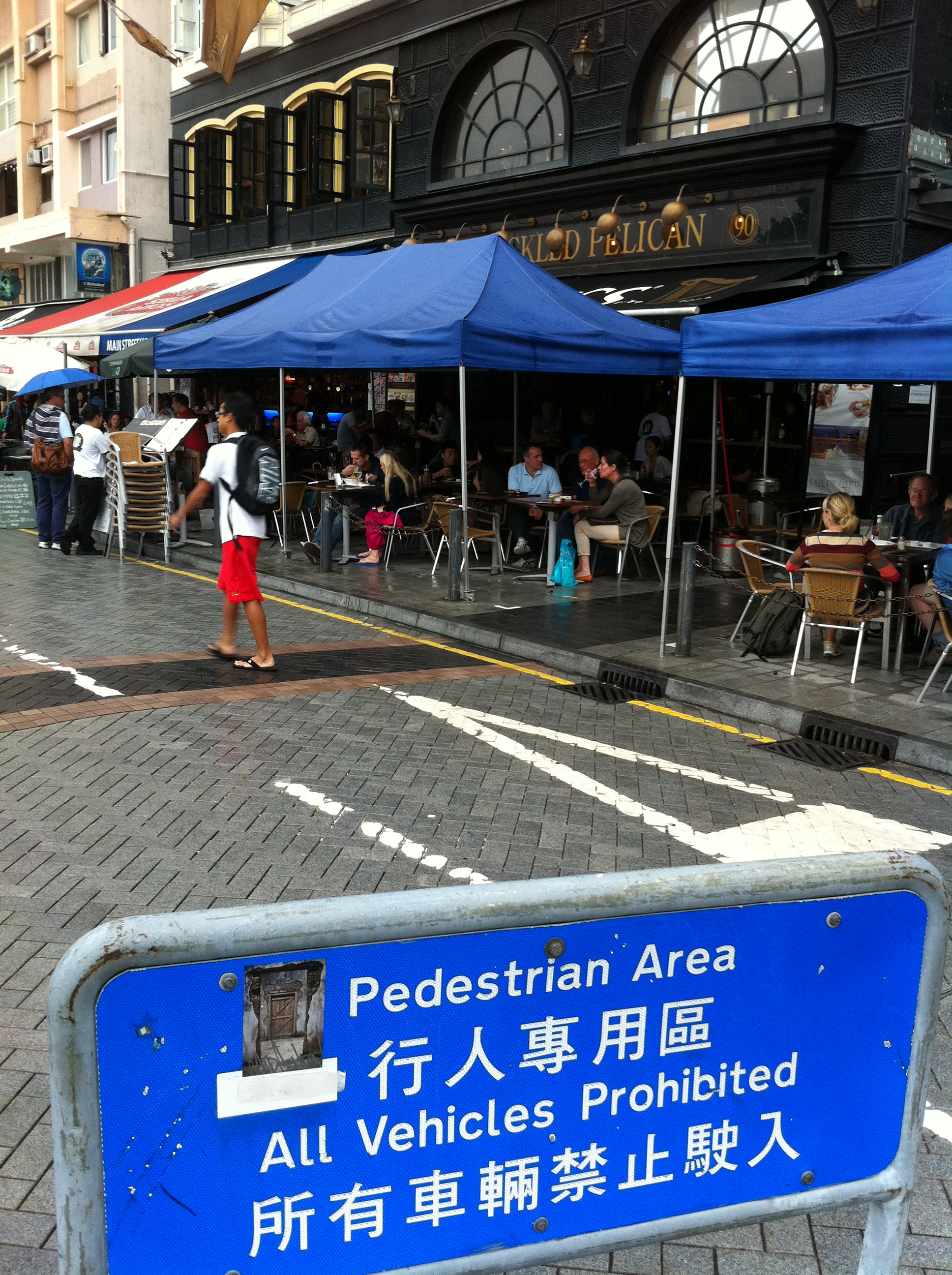 Stanley Main Street, Hong Kong 赤柱大街